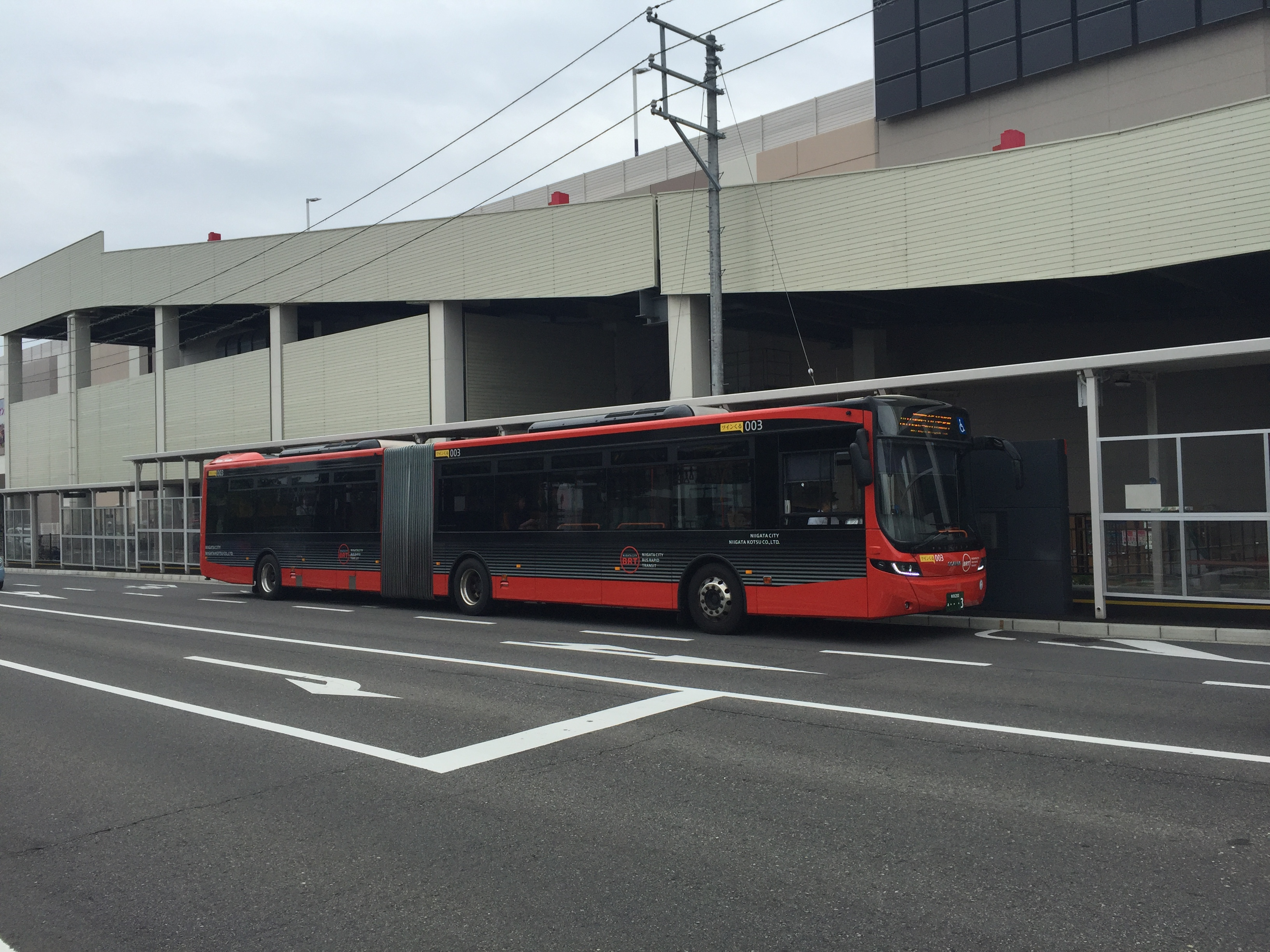 Scania K 360 articulated bus fitted with Volgren body, Niigata Kotsu, Japan.